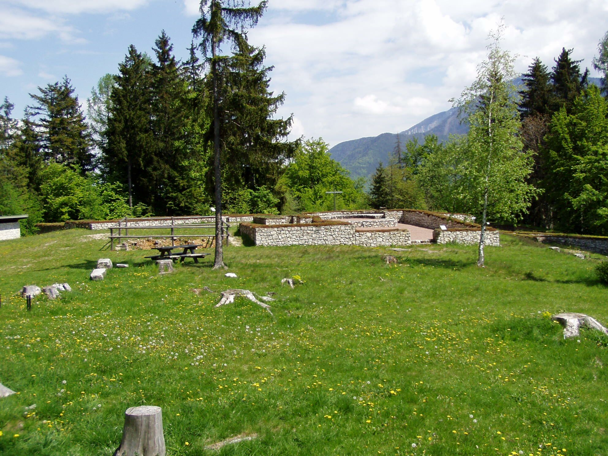 Hemmaberg, Carinthia. First Christian Church, Beginning 5th century.